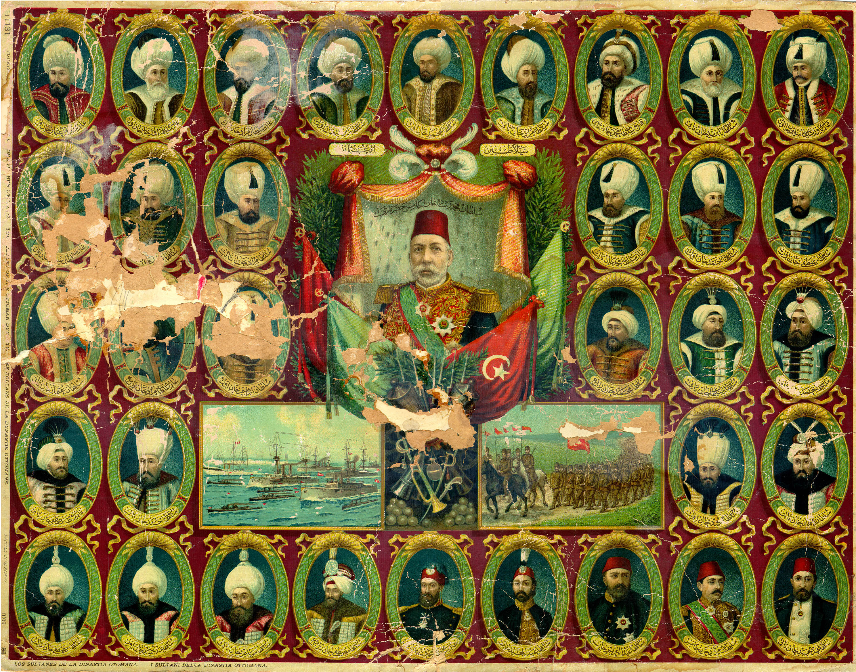 Poster showing Sultans of the Ottoman Dynasty, from Osman I (upper left corner) to Mehmed V (large portrait in the center). The text on the left and lower left of the poster reads: THE SULTANS OF THE OTTOMAN DYNASTY in Turkish, English, French, Spanish and Italian. On the upper left edge is the number "11131". On the lower left edge it is indicated that the poster was "printed in Germany". Because of the martial scenes below Mehmed V's portrait, the work was most likely intended to cement the Ottoman-German Alliance during World War I.